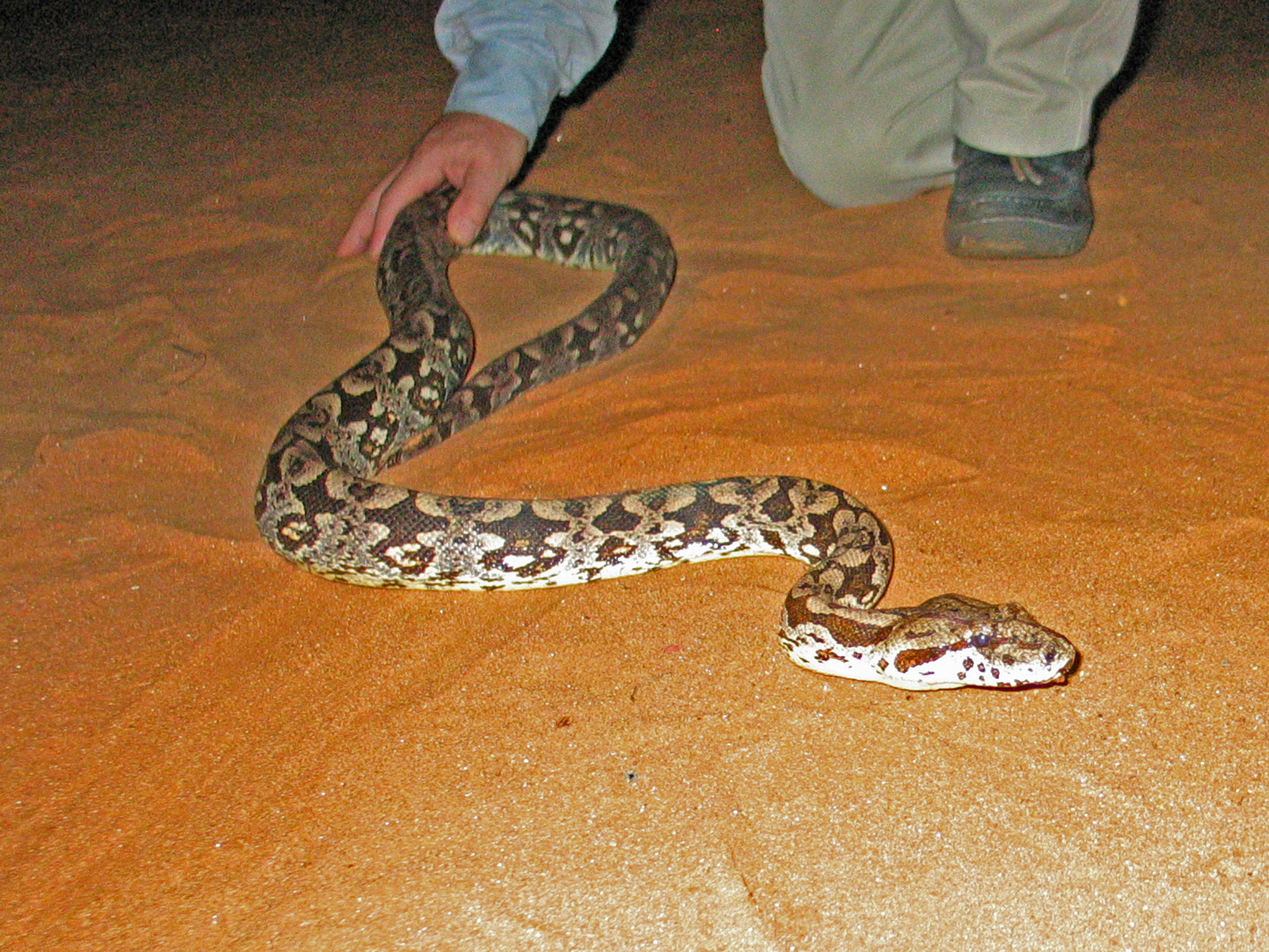 Acrantophis dumerili, de nuit, Berenty, Sud Madagascar